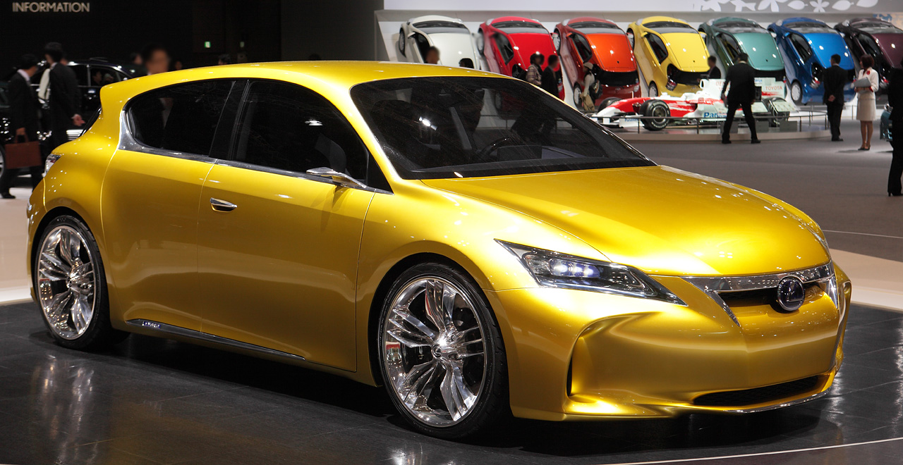 Lexus LF-Ch at Tokyo Motor Show.